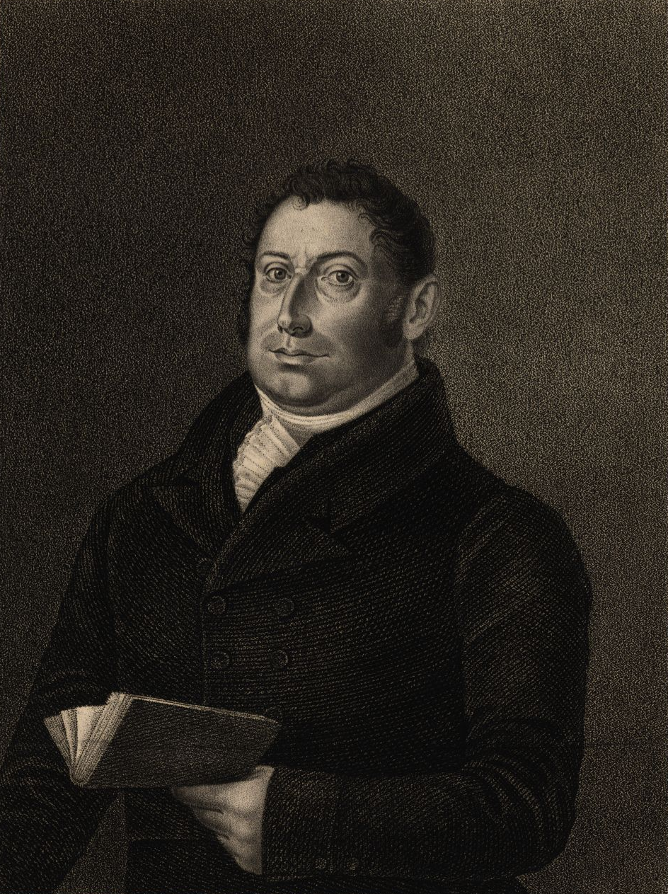 Roque Ribeiro de Abranches Castelo Branco, 1st Viscount of Midões (1770-1844), Portuguese politician.